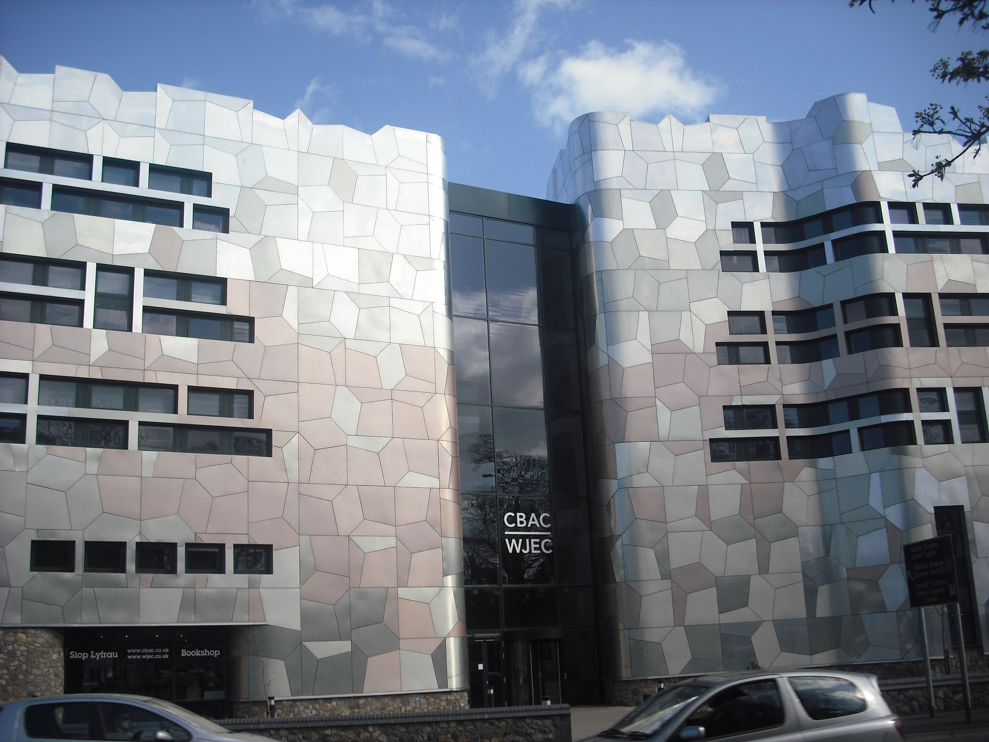 The main entrance of the WJEC in Cardiff